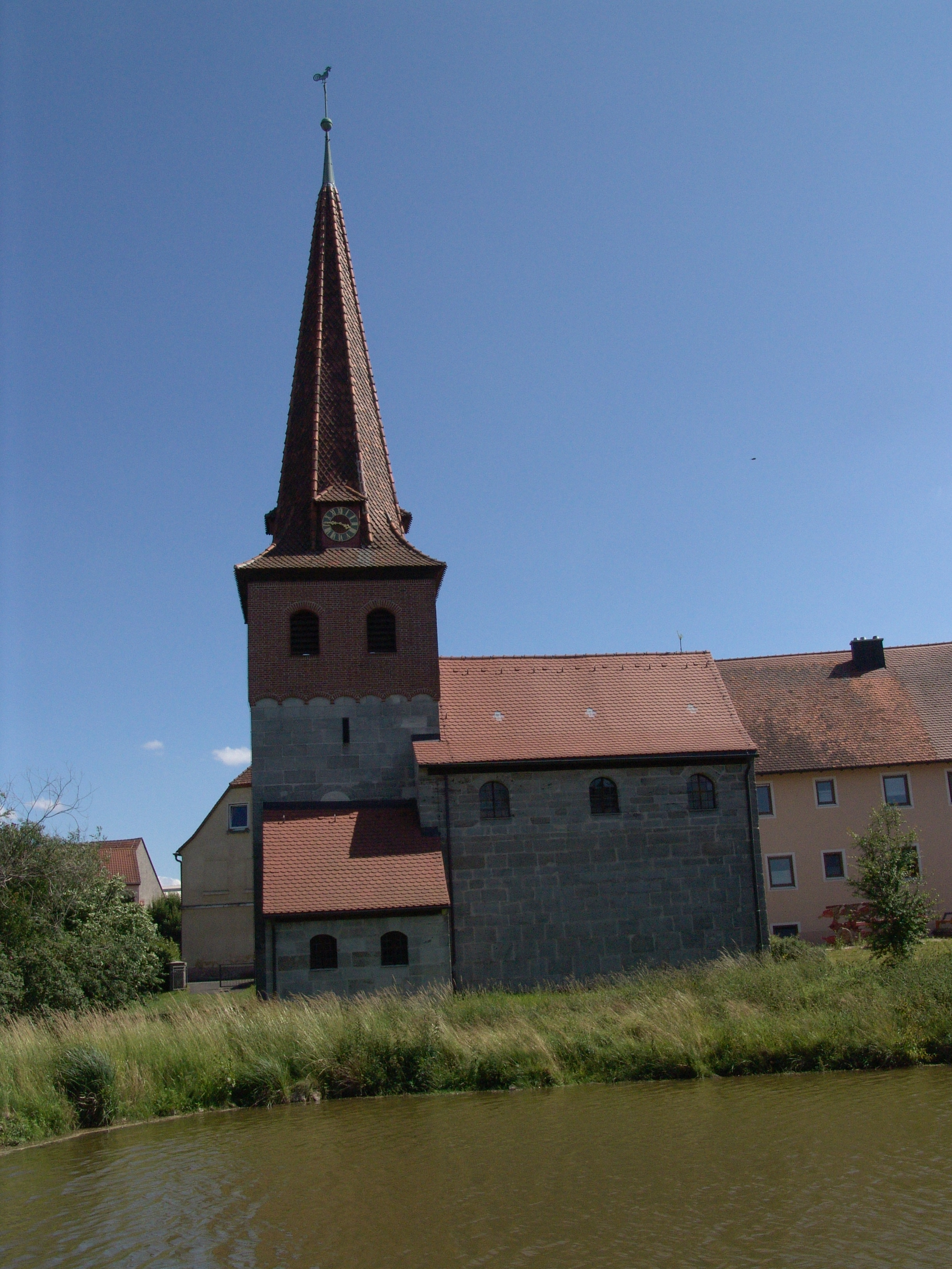 Rennhofen St. Margaretha